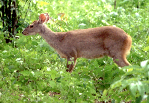 Image of the sudamerican deer Mazama gouazoubira